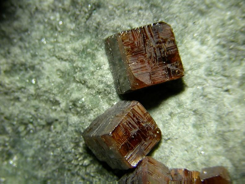 Perovskite Locality: Rocca Sella, Almese, Susa Valley, Torino Province, Piedmont, Italy (Locality at ) Field of view 7 mm.